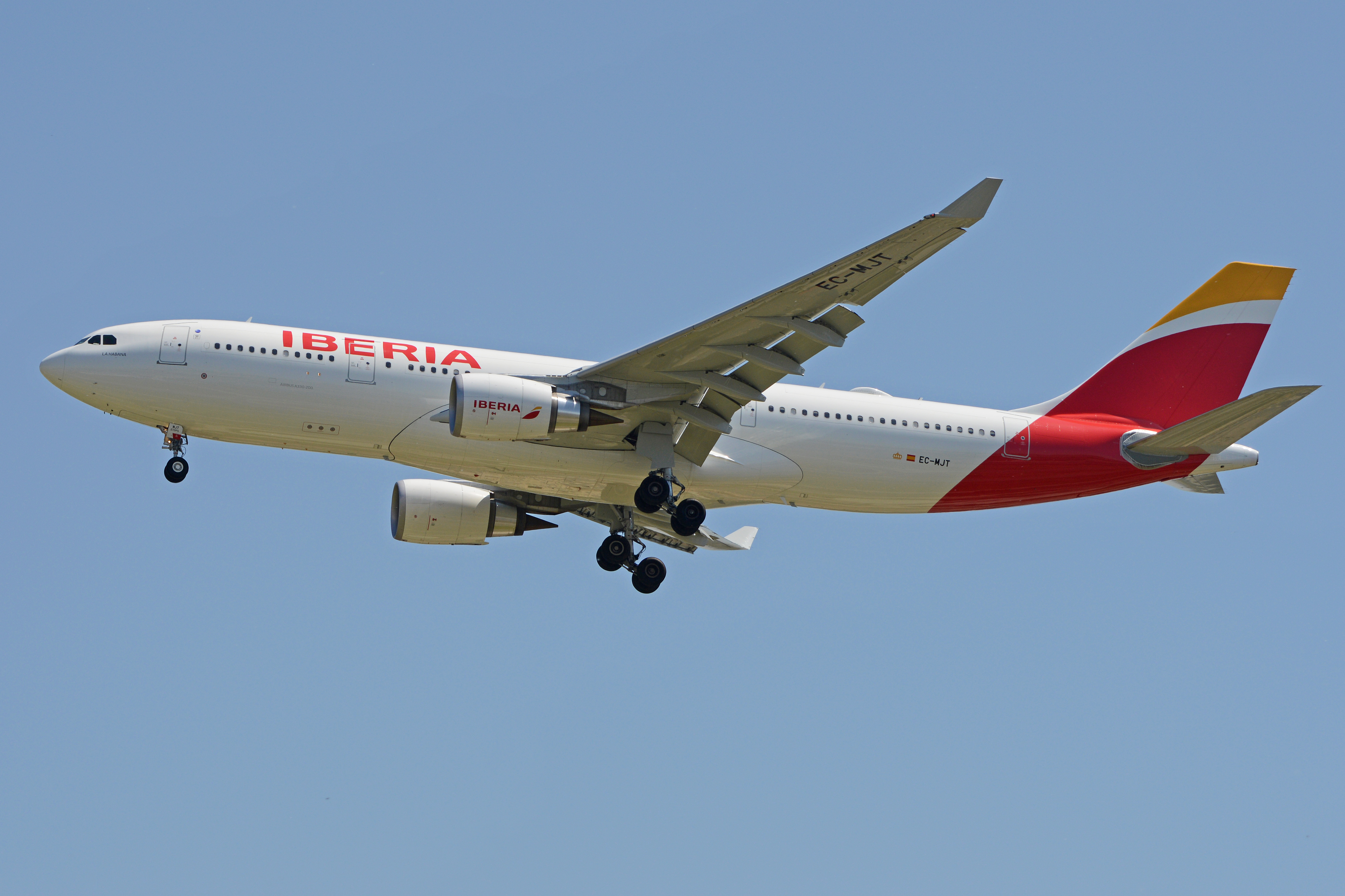 c/n 1710. Built 2016. Arriving on flight IB6588 from Cali. Madrid Bajaras Airport, Spain. 21st May 2016